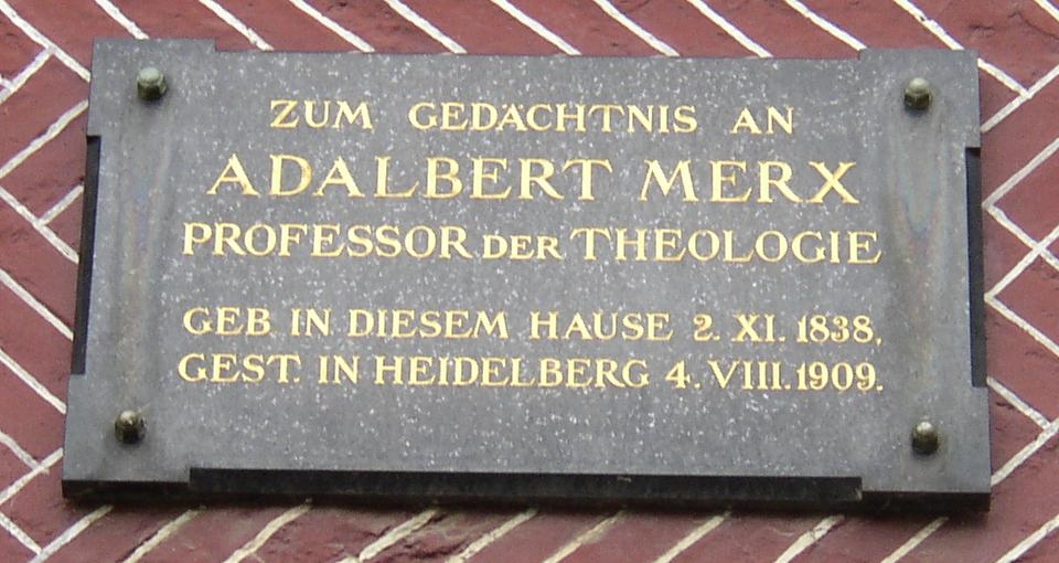 Memorial plaque for Adalbert Merx in Bleicherode in Thuringia, Germany